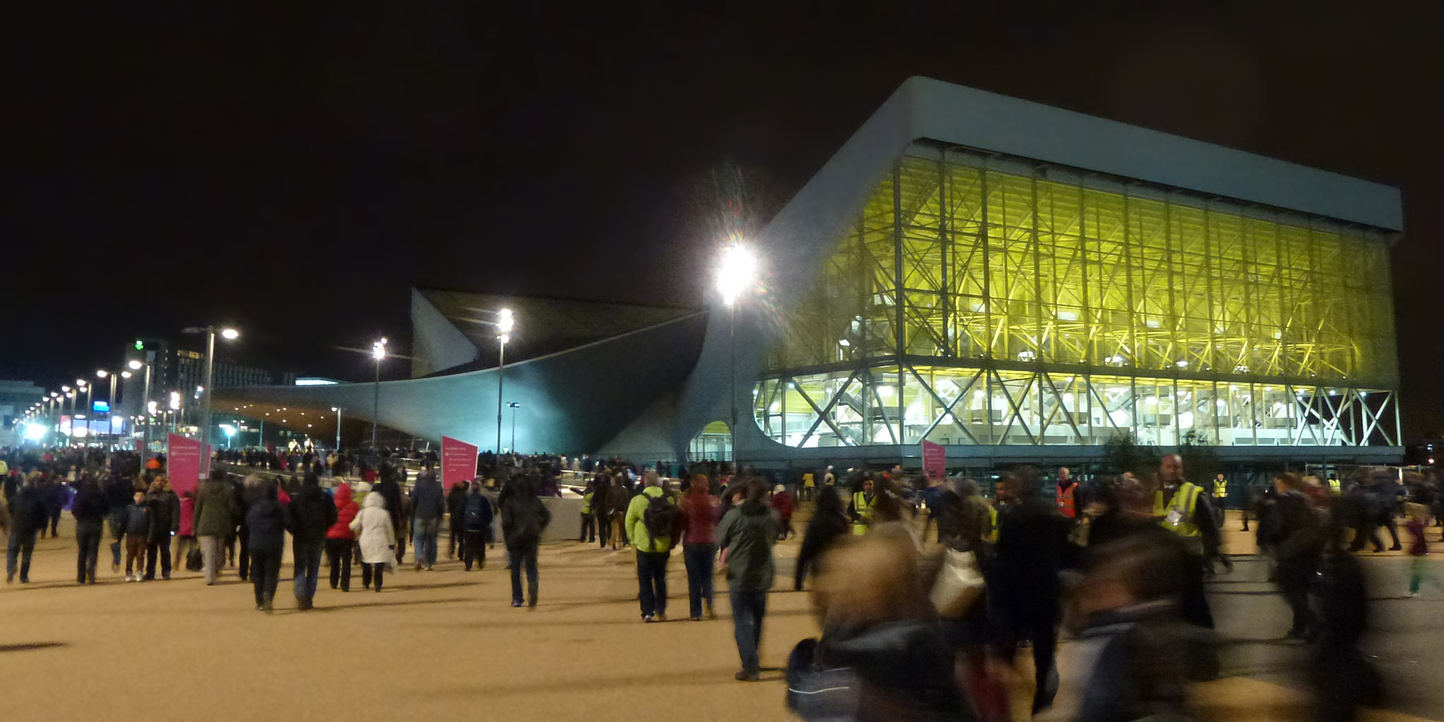 Night view of the London Aquatic Centre on 5 May 2012.